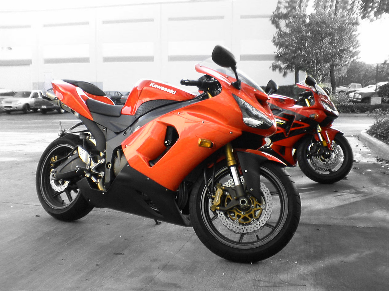 2005 Kawasaki Ninja ZX-6R in Pearl Magma Red / Flat Stoic Black with a 2006 Honda CBR600RR in the background. The camera used is a Sony Ericsson S710a.